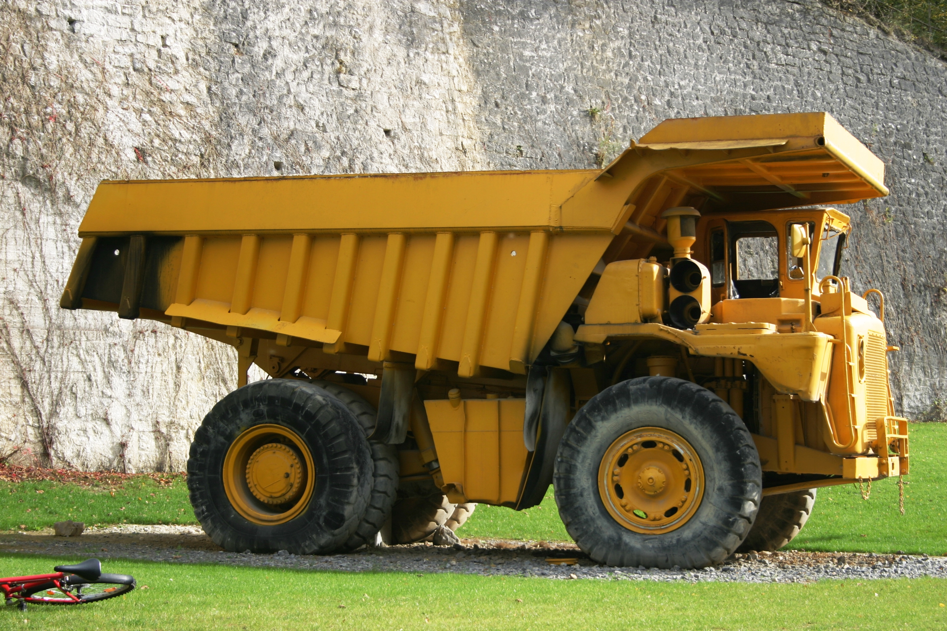 Caterpillar 773A seen at Ampsin (Belgium)